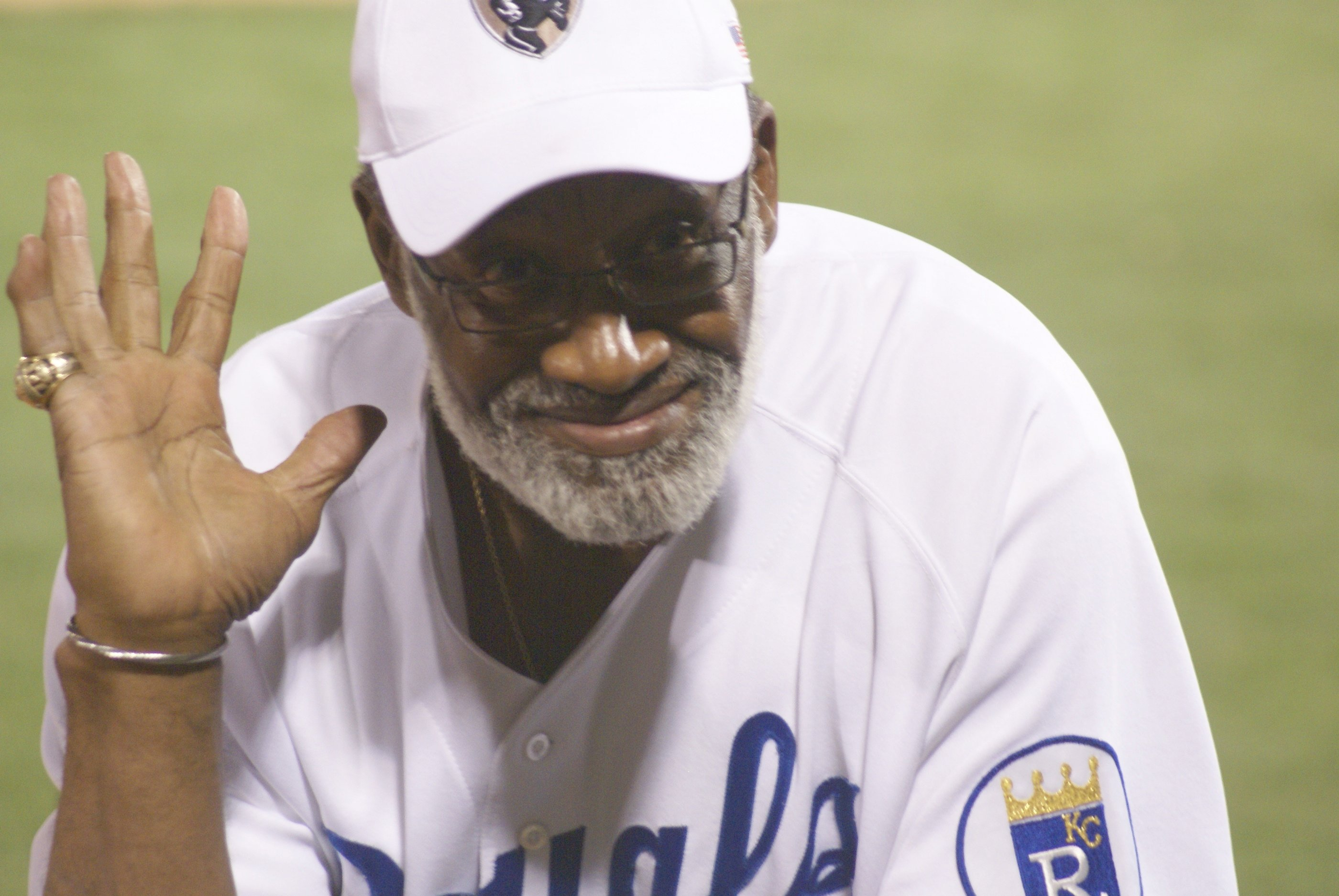 Former Kansas City Chiefs player Bobby Bell at a Kansas City Royals game.